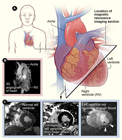 Figure A shows the heart's position in the body and the location and angle of the MRI pictures shown in figure C. Figure B is an MRI angiogram, which is sometimes used instead of a standard angiogram. Figure C shows MRI pictures of a normal left ventricle (left image), a left ventricle damaged from a heart attack (middle image), and a left ventricle that isn't getting enough blood from the coronary arteries (right image).